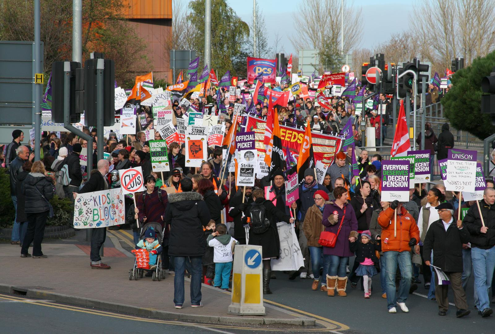 Public sector workers in Leeds, West Yorkshire striking over pension changes by the government in November 2011. At this point the march was heading towards the city centre.